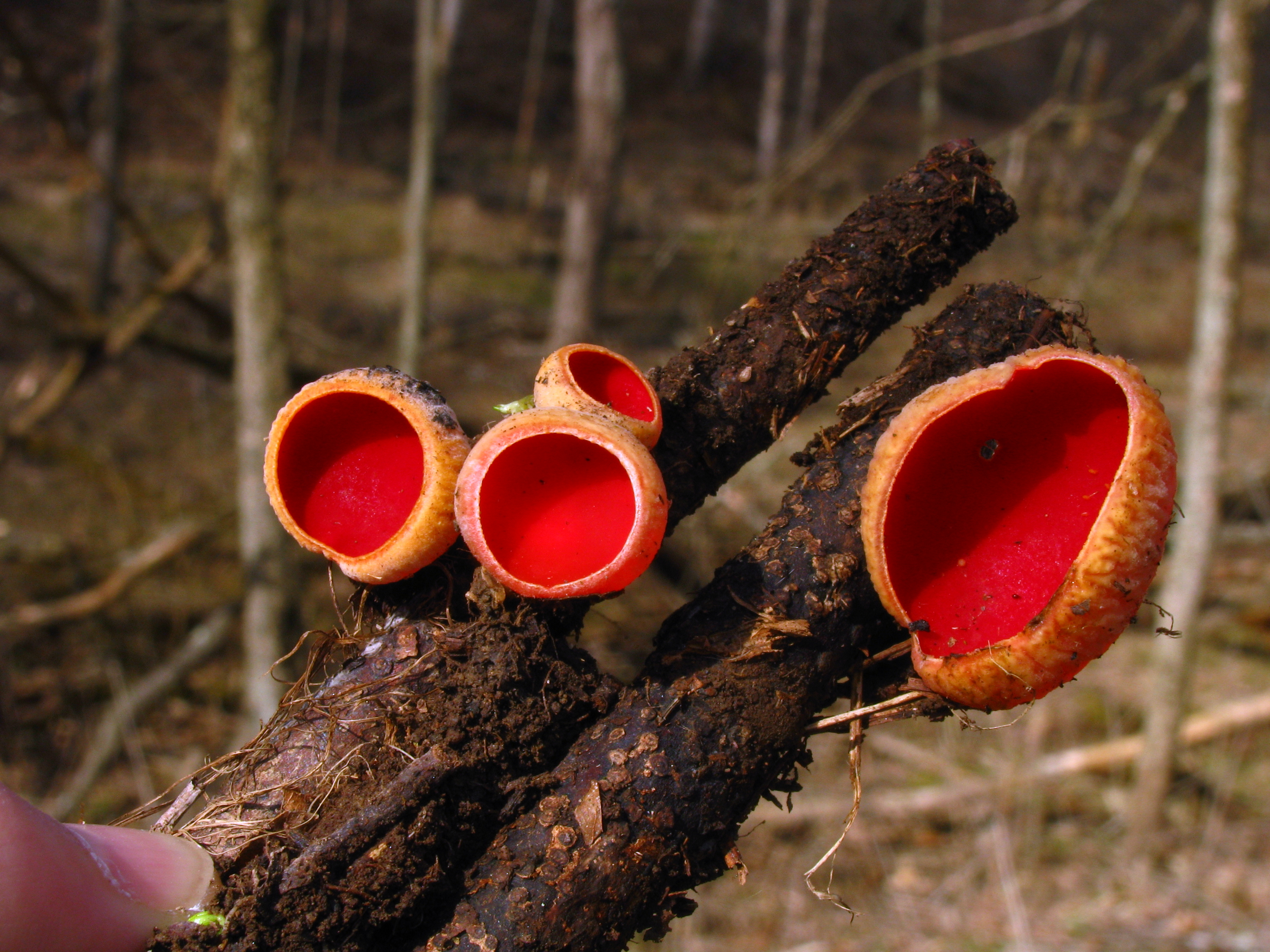 Sarcoscypha austriaca (O. Beck ex Sacc.) Boud. Image location: Egypt Valley Wildlife Area, Belmont Co., Ohio, USA Recognized by sight For more information about this, see the observation page at Mushroom Observer.